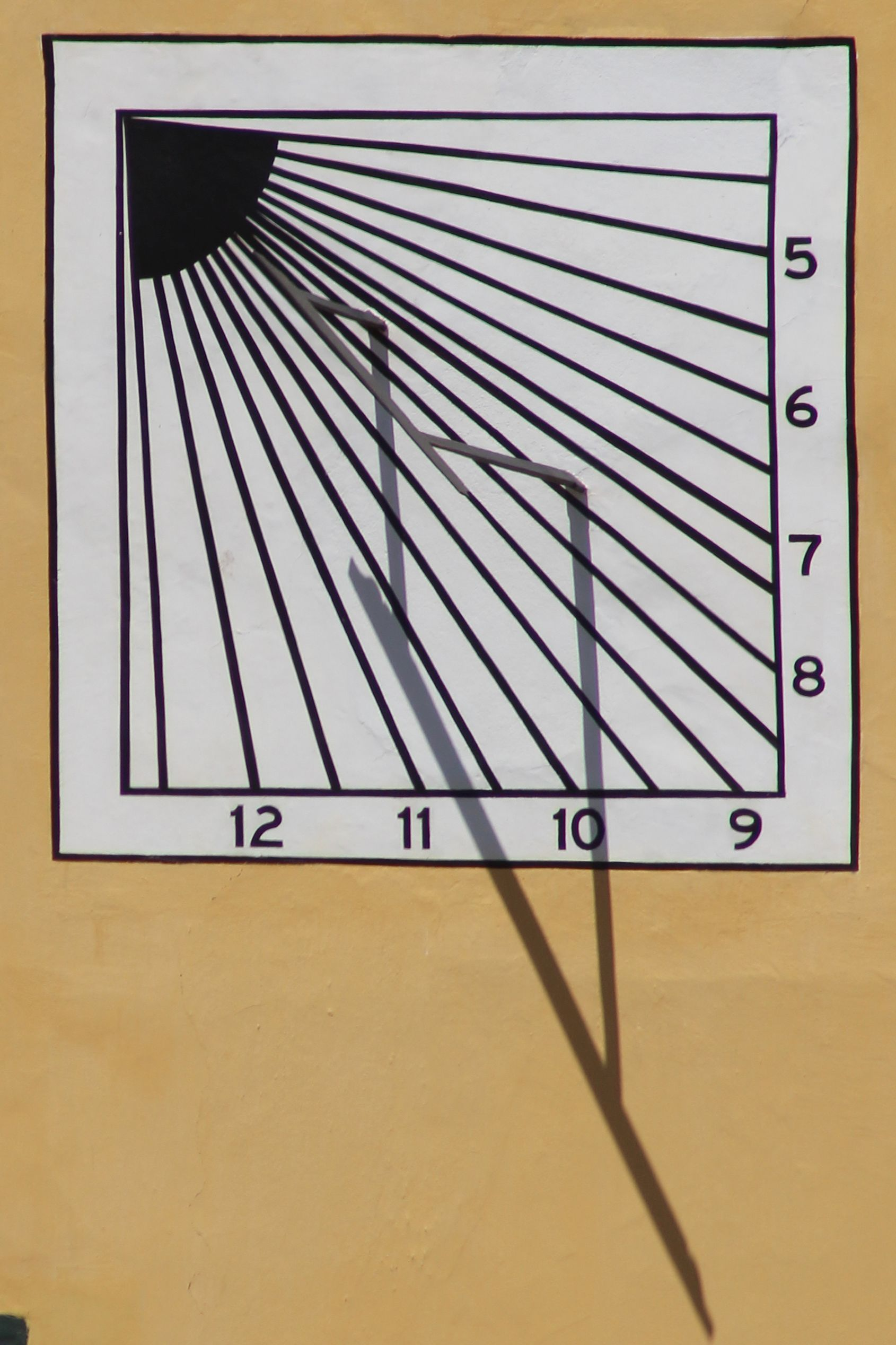 A vertical sundial at the Castle of Good Hope, Cape Town, South Africa. It face a direction of about 55° east of north. Unlike vertical sundials in the Northern Hemisphere, the numbers run clockwise, not anti-clockwise. It should be noted that the clock in the photographer's camera, nominally set to GMT, was 17 minutes fast and that South African Standard Time is GMT+2.